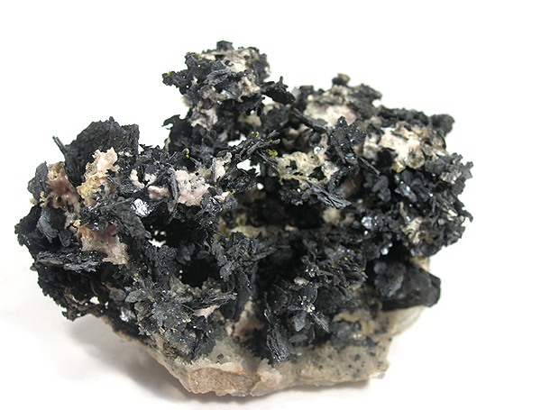 Nagyágite Locality: Sacarîmb (Sãcãrâmb; Szekerembe; Nagyág), Hunedoara County, Romania (Locality at ) Nagyagite is a LEAD/GOLD/TELLURIUM/ANTIMONY sulfide This amazingly rich specimen of nagyagite is quite simply the best I have ever seen for sale by a long shot. It is an extremely rare mineral and this is from the type locality, probably dating to the 1800s if not before. It is covered on both sides bu sharp, freestanding crystals to an inch in size, and is a very 3-dimensional piece. Not only is it better than any other i have seen , at least for sale, but it also has more nagyagite than any number of other specimens combined. It is , in fact, almost a solid growth of arborescent nagyagite completely covering the matrix. This piece has some xeroxes of old labels (not originals) indicating some possible historical pedigree and is clearly one of the more important specimens in the update irregardless of the details in that regard. This piece came out at Tucson in a suite of natives "said to be" from the John Marshall Collection, though perhaps a mixup occurred because subsequent contact with John proves otherwise. I have noted this explicitly only because i previously had the piece attributed to him on this site. It is not so. 7.5 x 4.6 x 3.7 cm